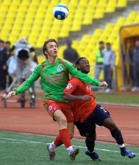 Sergei Yefimov (left) and Vágner Love in match between FC CSKA Moscow and Lokomotiv Moscow